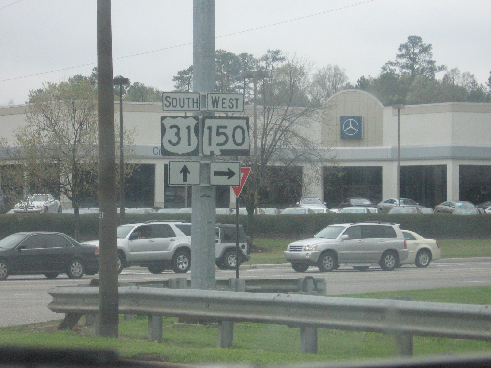 US Highway 31 and Alabama State Route 150 signs in Hoover, Alabama.